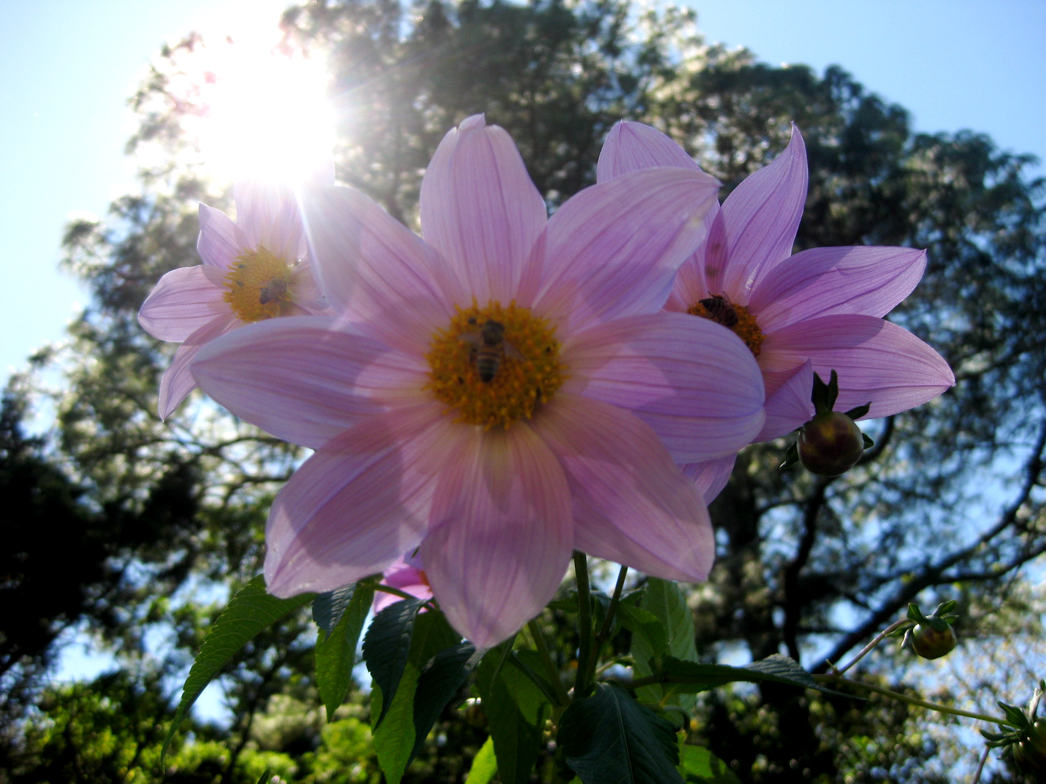 FLora de el Boqueron